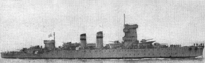 The Spanish cruiser Navarra in the 1940s, after her refit